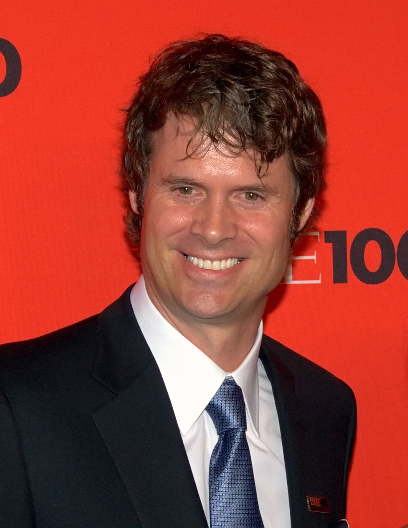 Tim Westergren at the 2010 Time 100 Gala.